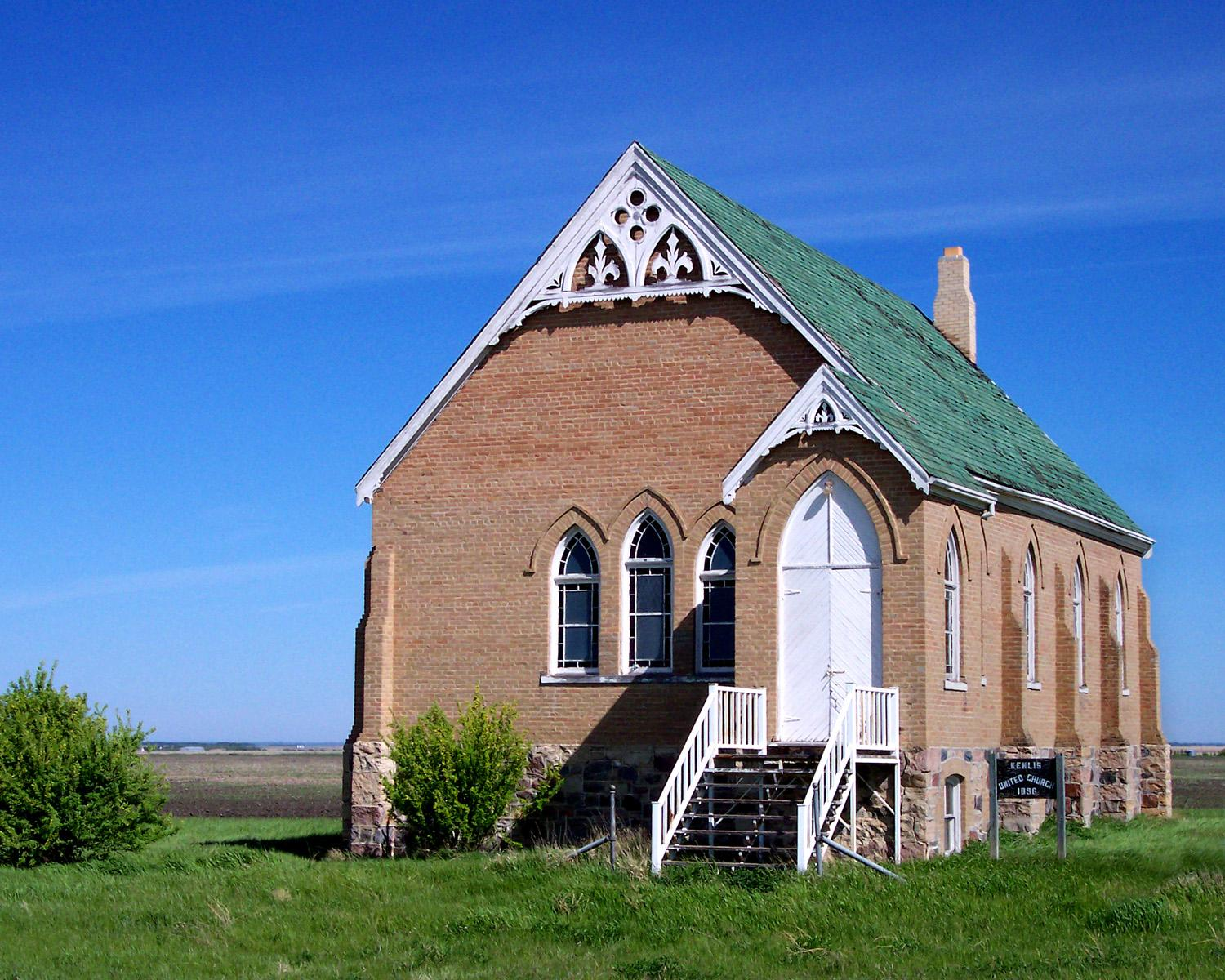 this is a photo of the kenlis united church located at the former townsite of kenlis saskatchewan.